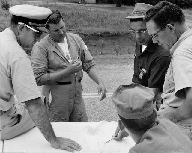 Navy personnel and Mississippi law enforcement officials discuss where to search next in Neshoba County for three civil rights workers, missing since they were released from jail the evening of June 21, 1964.